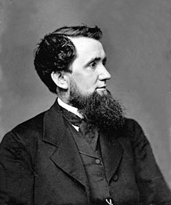 George Pullman as a young man.